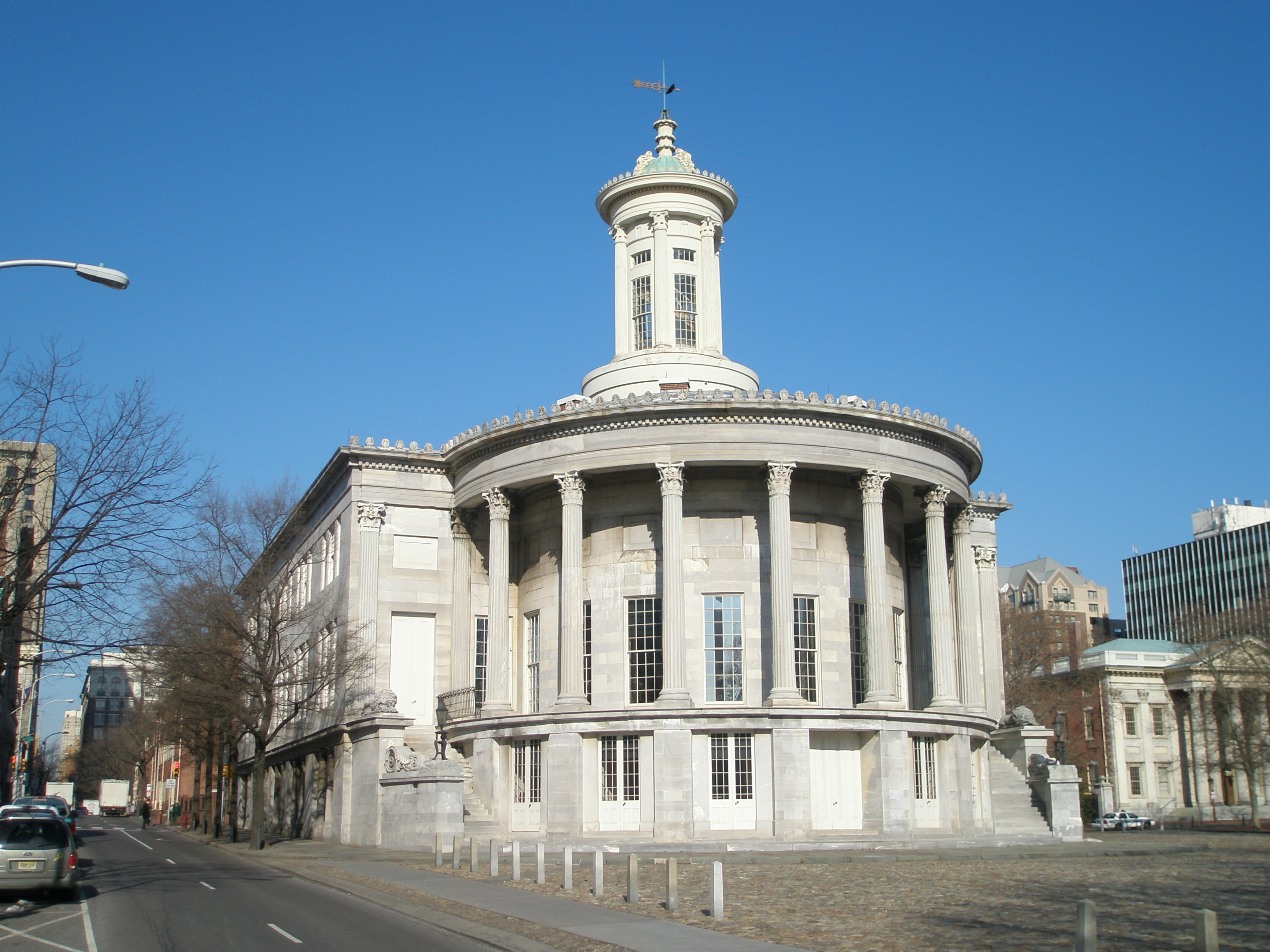 Philadelpia merchant exchangebuilding